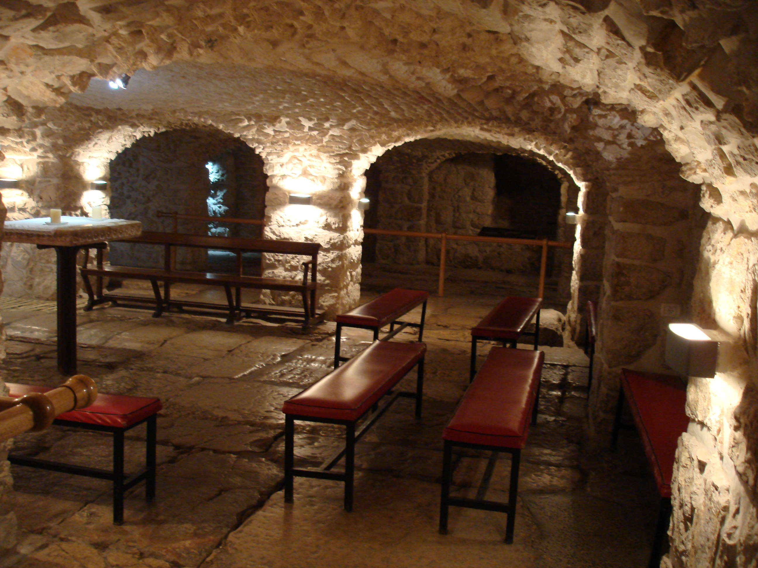 Lithostrotos, Jerusalem, Israel